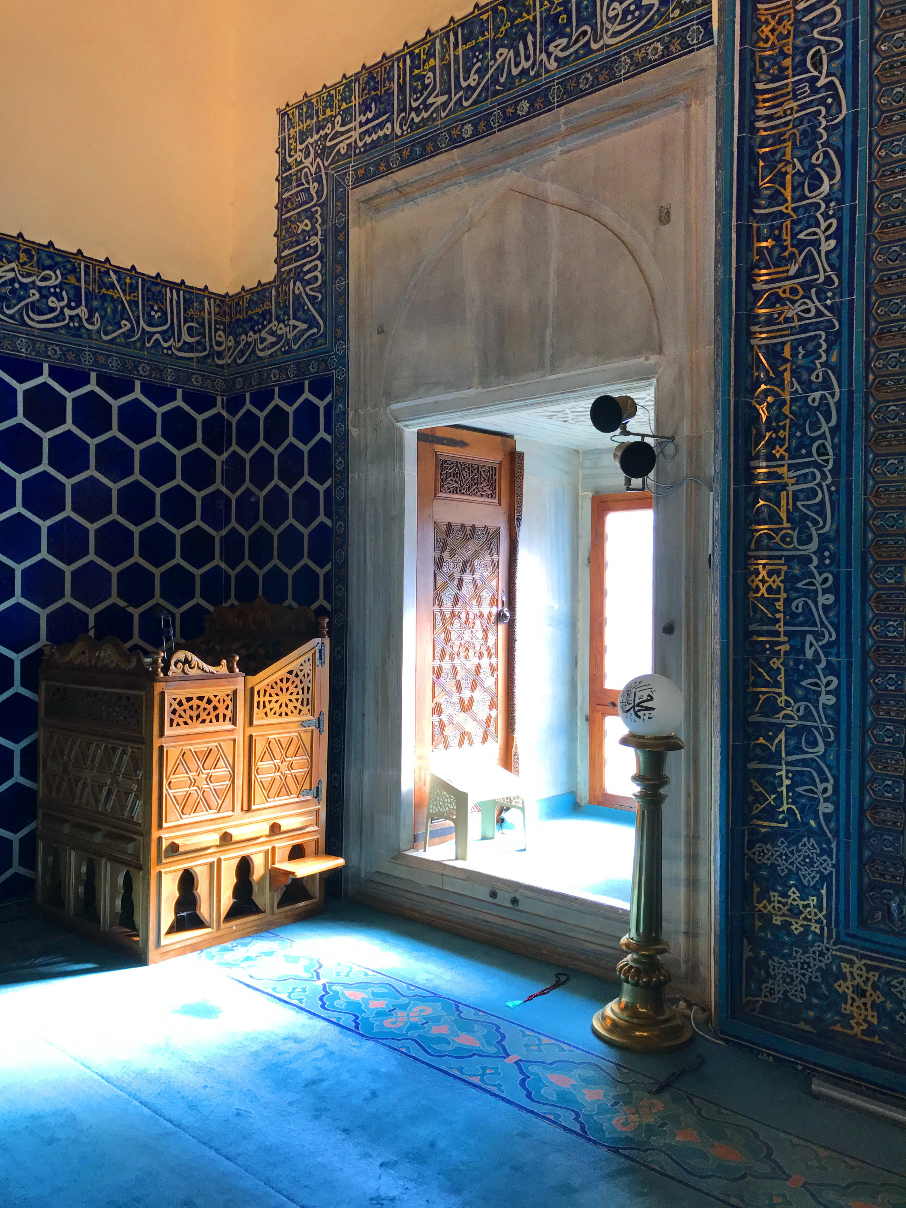 Green Mosque of Bursa, Turkey, 2017. Green Mosque (Turkish: Yeşil Camii, "Yeşil Mosque"), also known as Mosque of Sultan Mehmed I, is a part of the larger complex (a külliye) located on the east side of Bursa, Turkey, the former capital of the Ottoman Turks before they captured Constantinople in 1453. The complex consists of a mosque, türbe, madrasah, kitchen and bath.